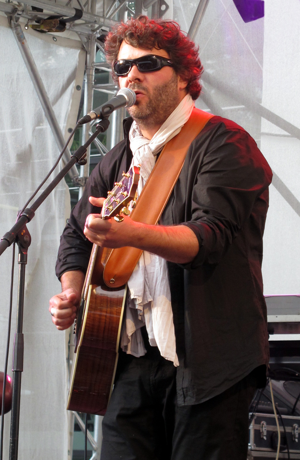 Serge Tonnar with his band Legotrip in Bridel/Luxembourg (Fête de la Musique 2011)